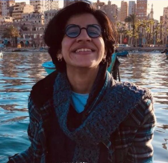 Cropped version of File:Sara Hegazy 01.jpg for a better focus on the person